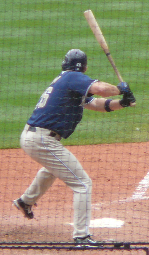 Please attribute this photo by name if used in places other than Wikipedia. 06:20, 29 May 2008 . . Chrisjnelson . . 510×874 (388 KB)